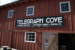 Telegraph Cove Pier, Stubb's Island, BC Canada